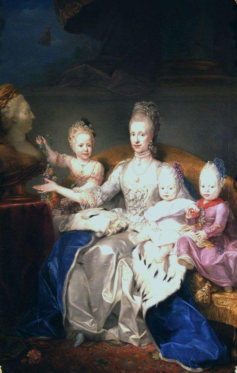 Grand Duchess Maria Luisa with her children pointing to a bust of Empress Maria Theresa